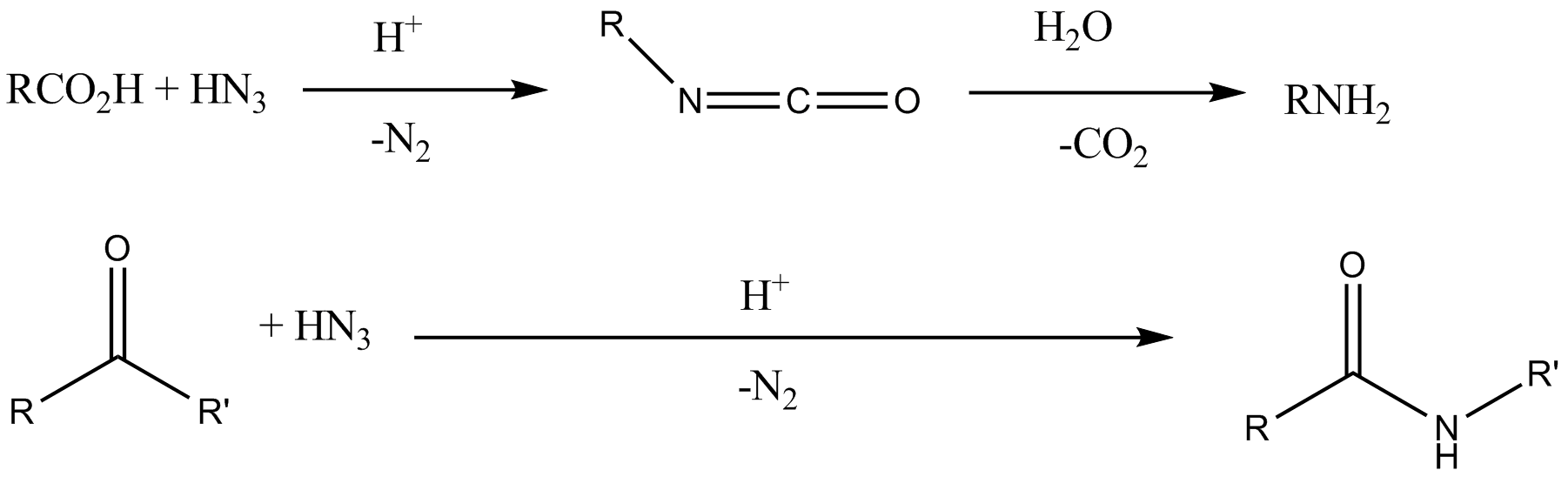 Schmidt reaction